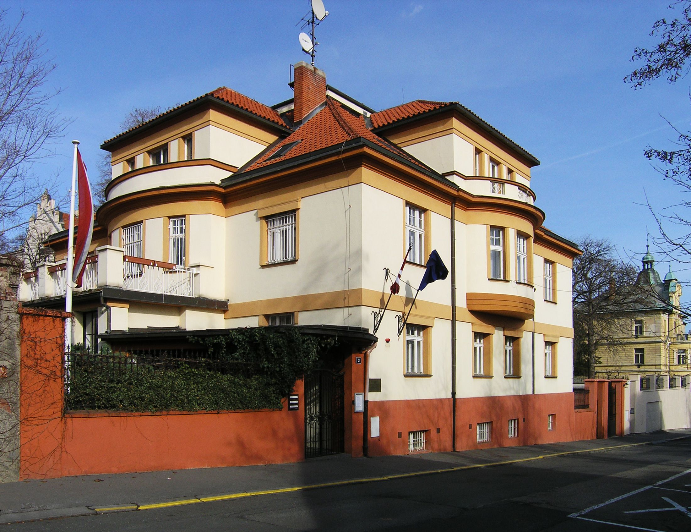 Embassy of the Republic of Latvia at Hradešínská street in Vinohrady, Prague